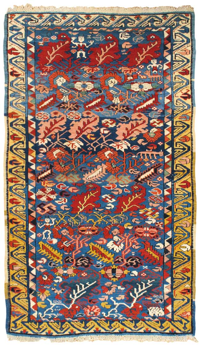 Zeikhur rug, northeast Caucasus, circa 1870. 0.99 x 1.65 m (3′ 3″ x 5′ 5″). Hagop Manoyan, New York. Shown at the 2017 Tribal & Textile Show, San Francisco